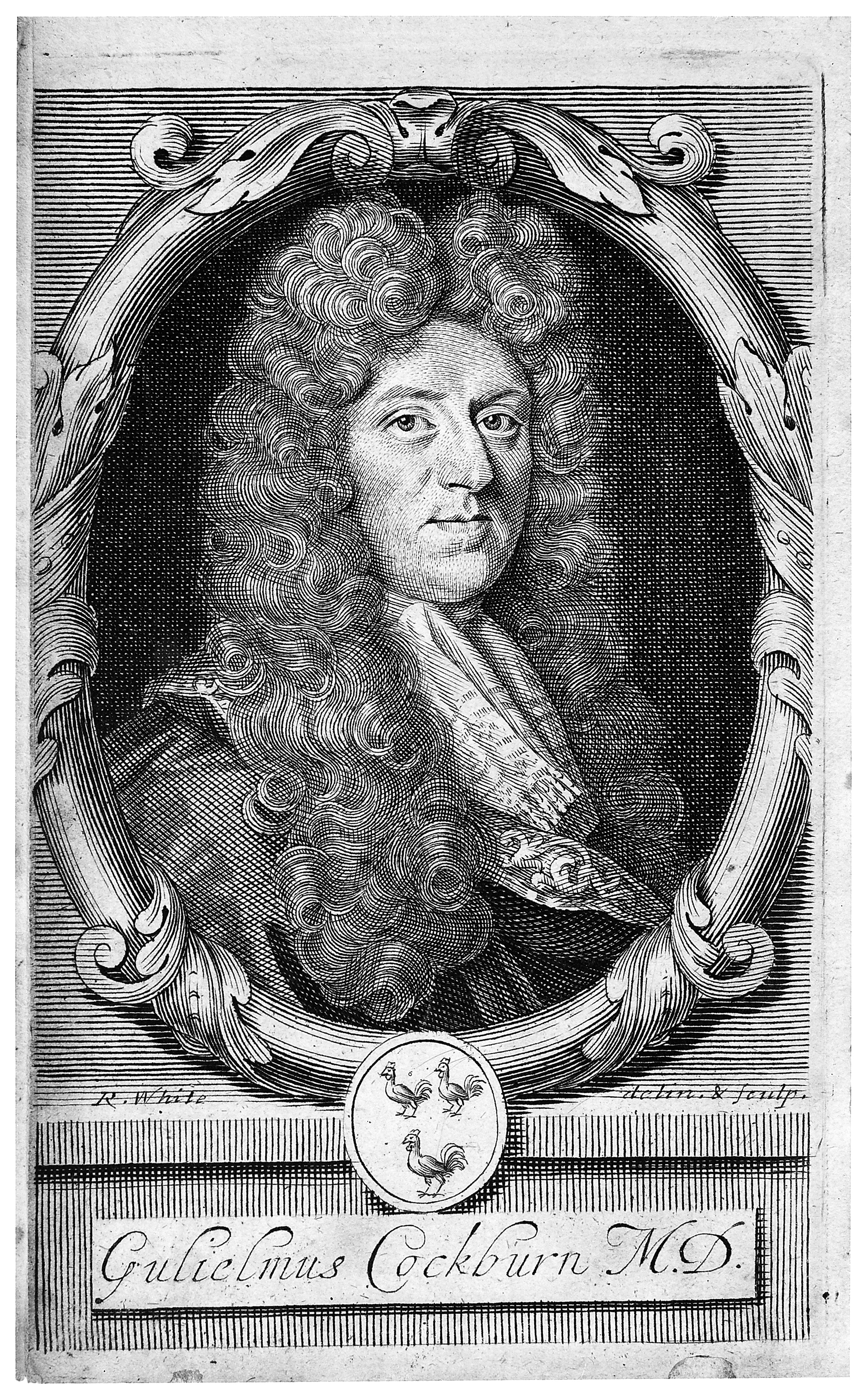 Portrait of William Cockburn Rare Books Keywords: William Cockburn; Robert White